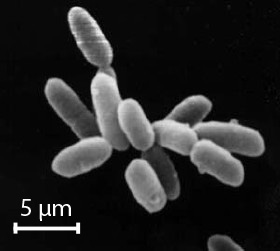 Cells of Halobacterium, image taken by a high-powered microscope. The individual cells in this image are about 5 microns long (scale is only approximate)